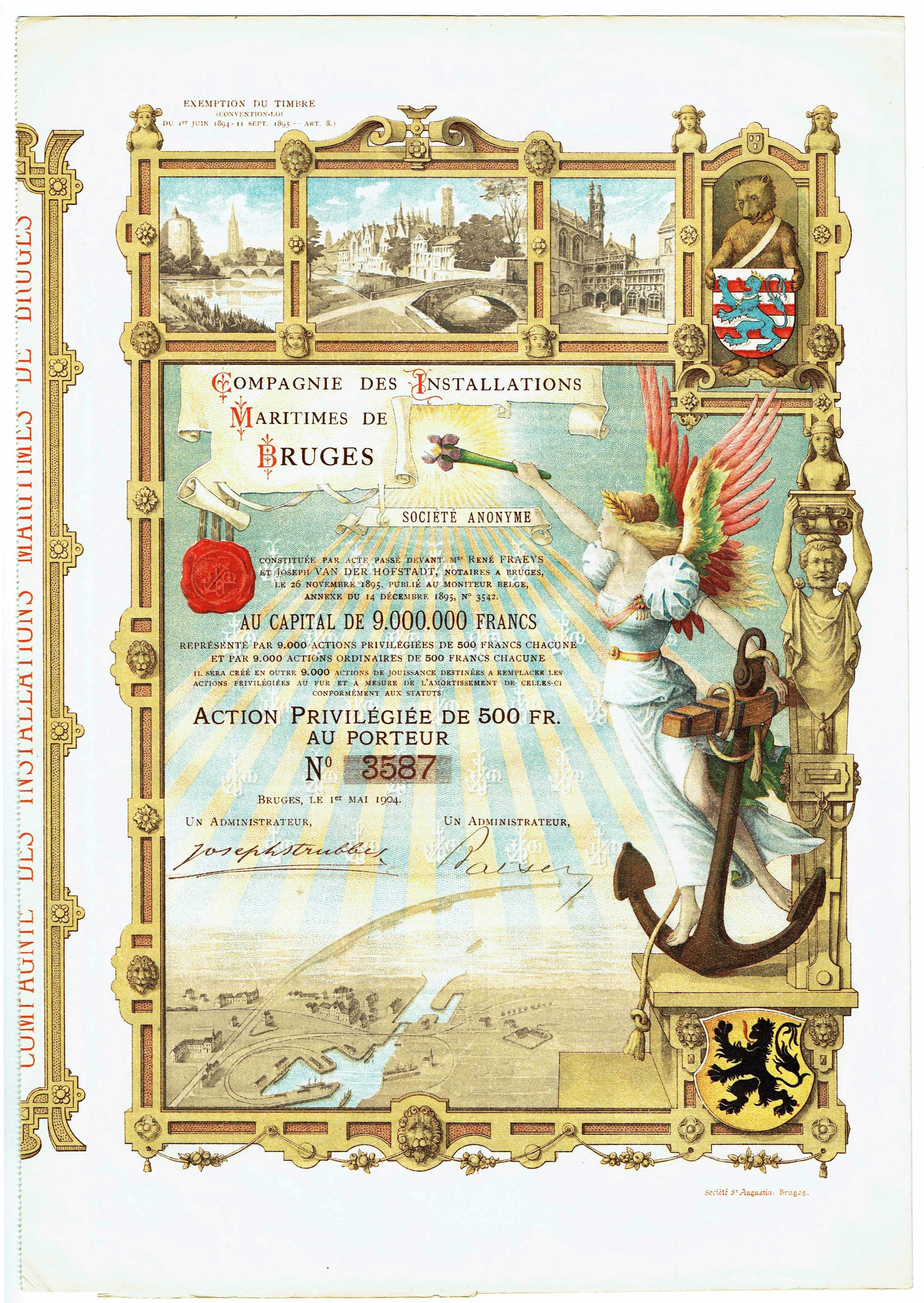 Share of the Compagnie des Installations Maritimes de Bruges, issued 1. May 1904